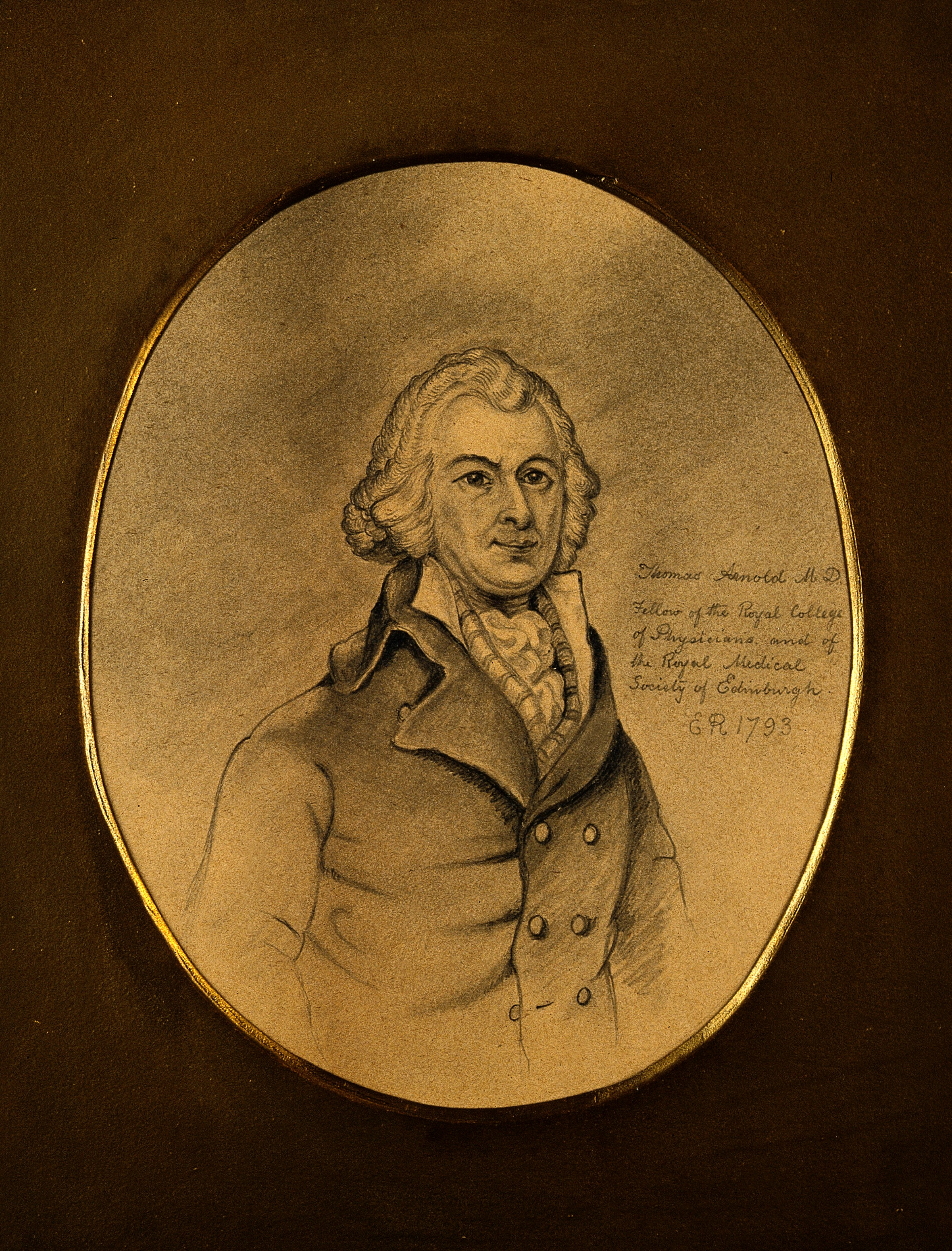 Thomas Arnold. Pencil drawing. Iconographic Collections Keywords: arnold, thomas, 1742-1816; Thomas Arnold; portrait drawings